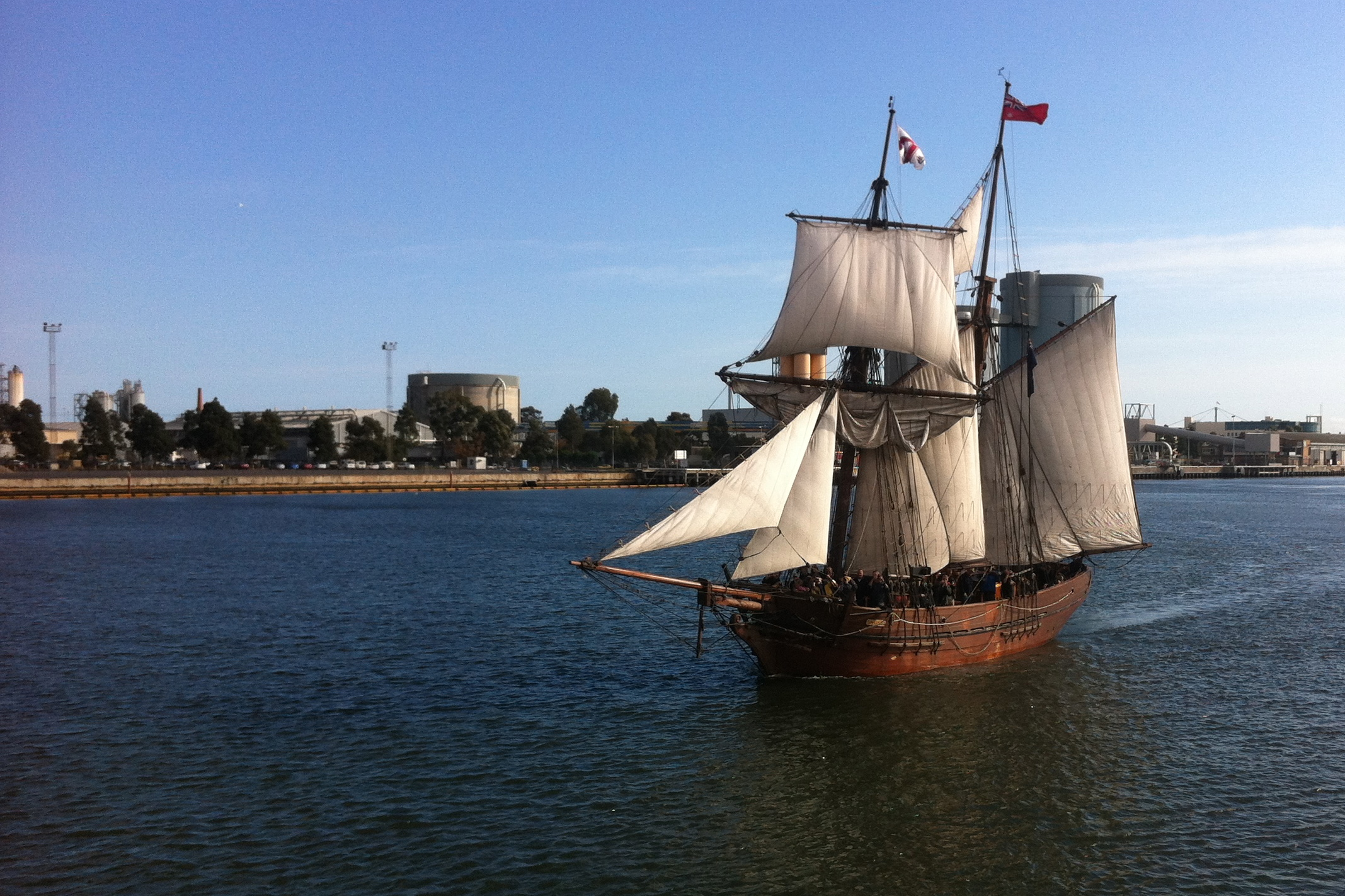 Replica of the 1829 vessel that founded Melbourne, Australia, under sail on the Yarra River near the Melbourne CBD.